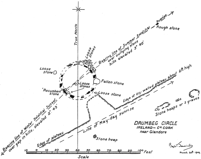 Sketch of astronomical alignments of Drombeg stone circle, made by Boyle Somerville in 1909